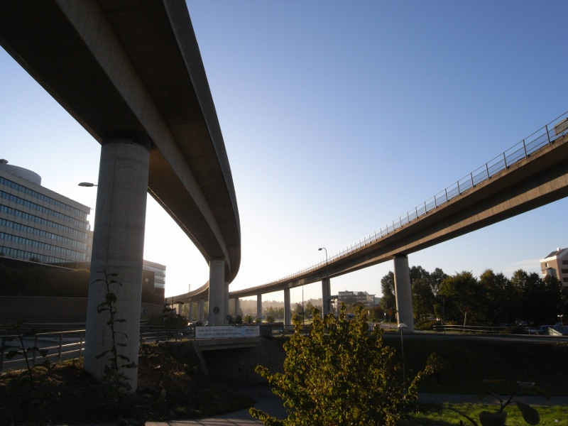 The two metro/underground bridges in Kista, north of Stockholm city. Kista is mainly associated with telecommunication and computer industry. It also hosts the IT University, a joint venture between the Royal Institute of Technology and Stockholm University. Because of its computer industries, Kista became referred to as Chipsta or Sweden's Silicon Valley in the 1980's.